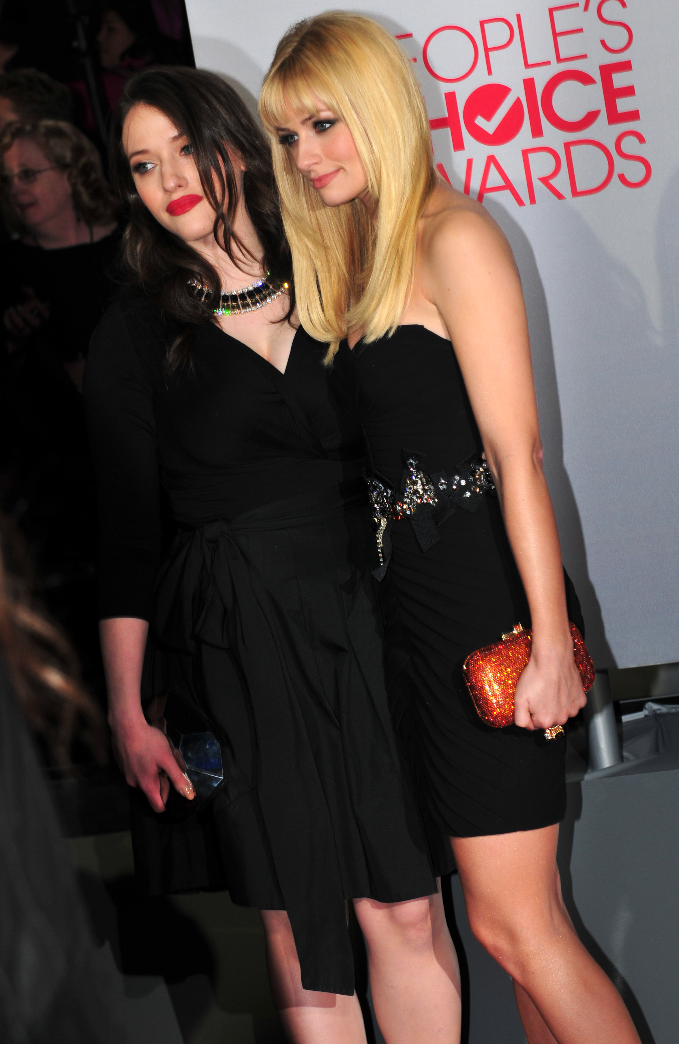 Kat Dennings and Beth Behrs on the red carpet at the 38th People's Choice Awards on January 11, 2012, at the Nokia Theatre in Los Angeles, California. (JJ Duncan/ )